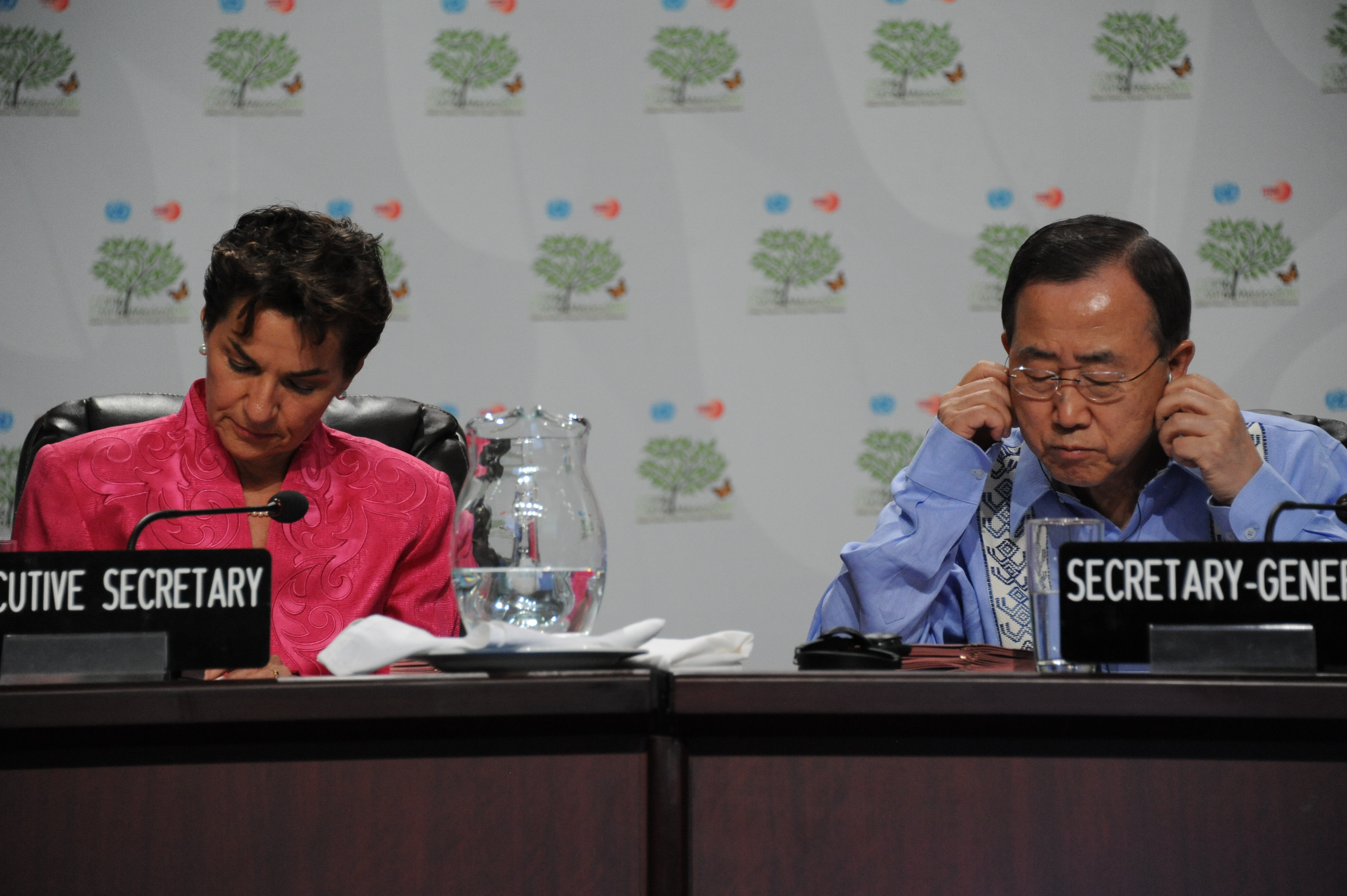 UN Climate Talks 2010. Cancun, Mexico. by United Nations ; Présidente of the conference, with Ban Ki-moon (Secretary-General, United Nations)